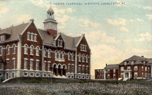 Higgins Classical Institute, Charleston, ME; from a 1905 postcard.